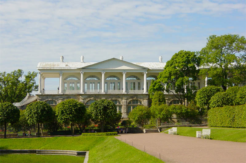 Catherine the Great's private wing of Catherine's summer palace. This wing is an early example of the Greek Revival (Ionic Order) style in its upper portions, while the lower stonework could be appropriately described as rustic Romanesque, which combine to form a composite Roman order . In comparison to the baroque opulence of the main palace at this location (which Catherine disliked, calling it "whipped cream style"), her choice of this type of building for her personal residence was considered to be quite modest by her contemporaries and courtiers. Image by User:Leonard G.